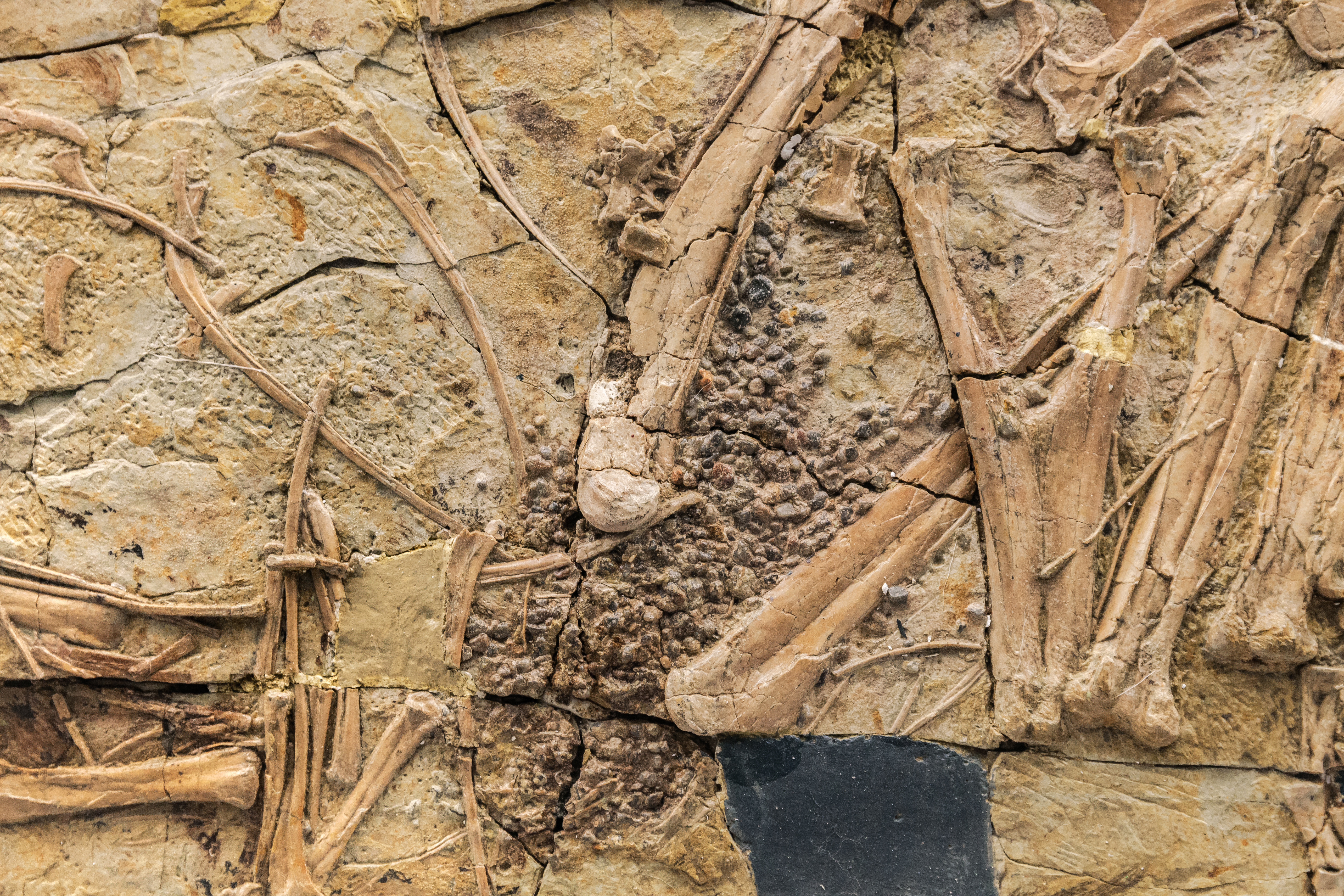 Gastroliths in Caudipteryx zoui specimen BPV 085, which is collected from Beipiao, Liaoning, China. This specimen is a collection of Beijing Museum of Natural History and was on display in National Museum of Natural Science (Taichung, Taiwan) during a special exhibition.